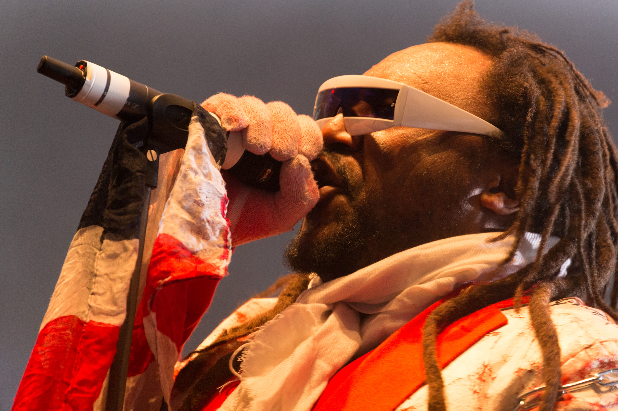 Skindred performing at the Eier mit Speck Festival, Viersen, Germany, July 2014